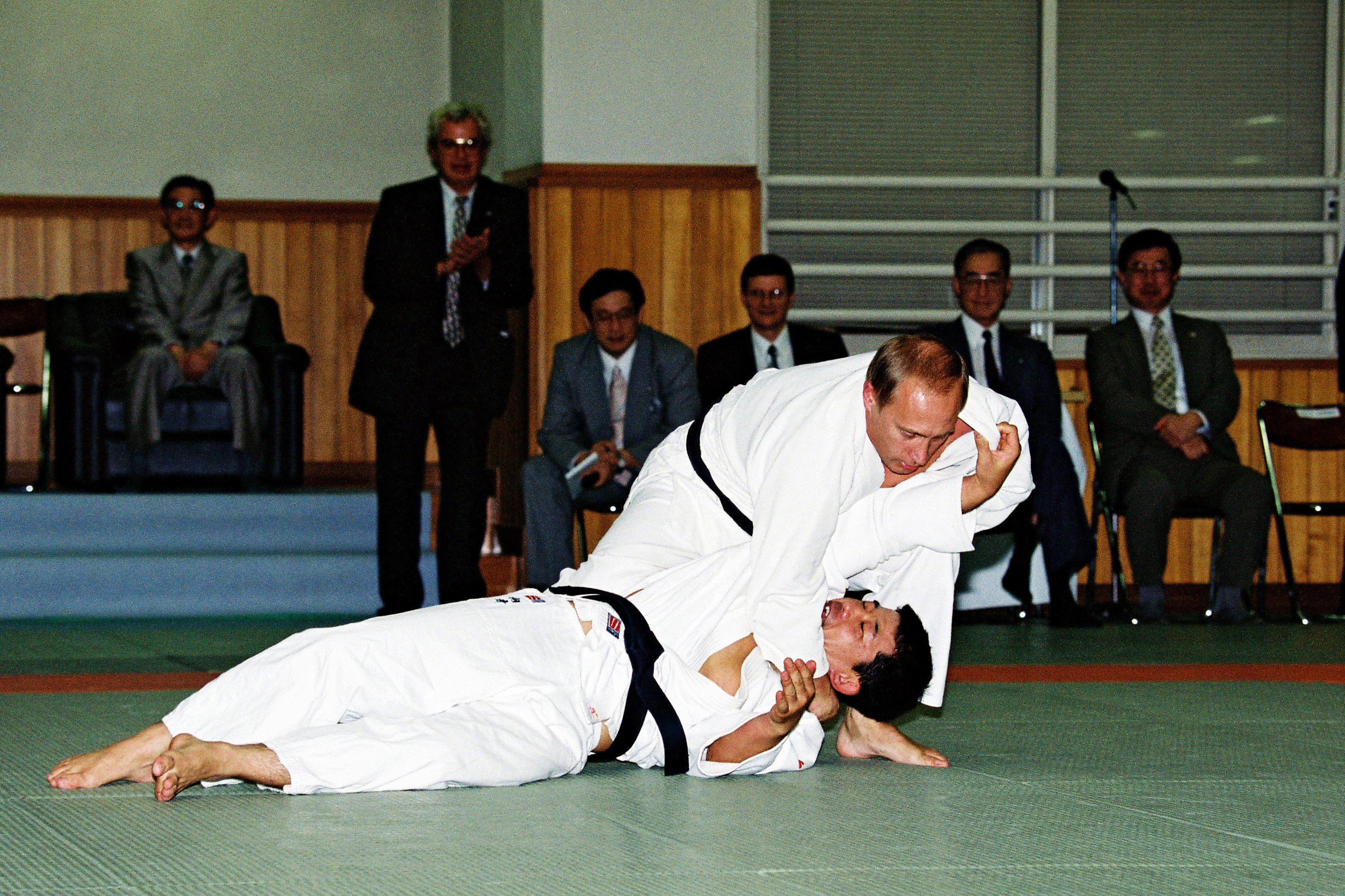 TOKYO. President Putin on a tatami at the Kodokan Martial Arts Palace.